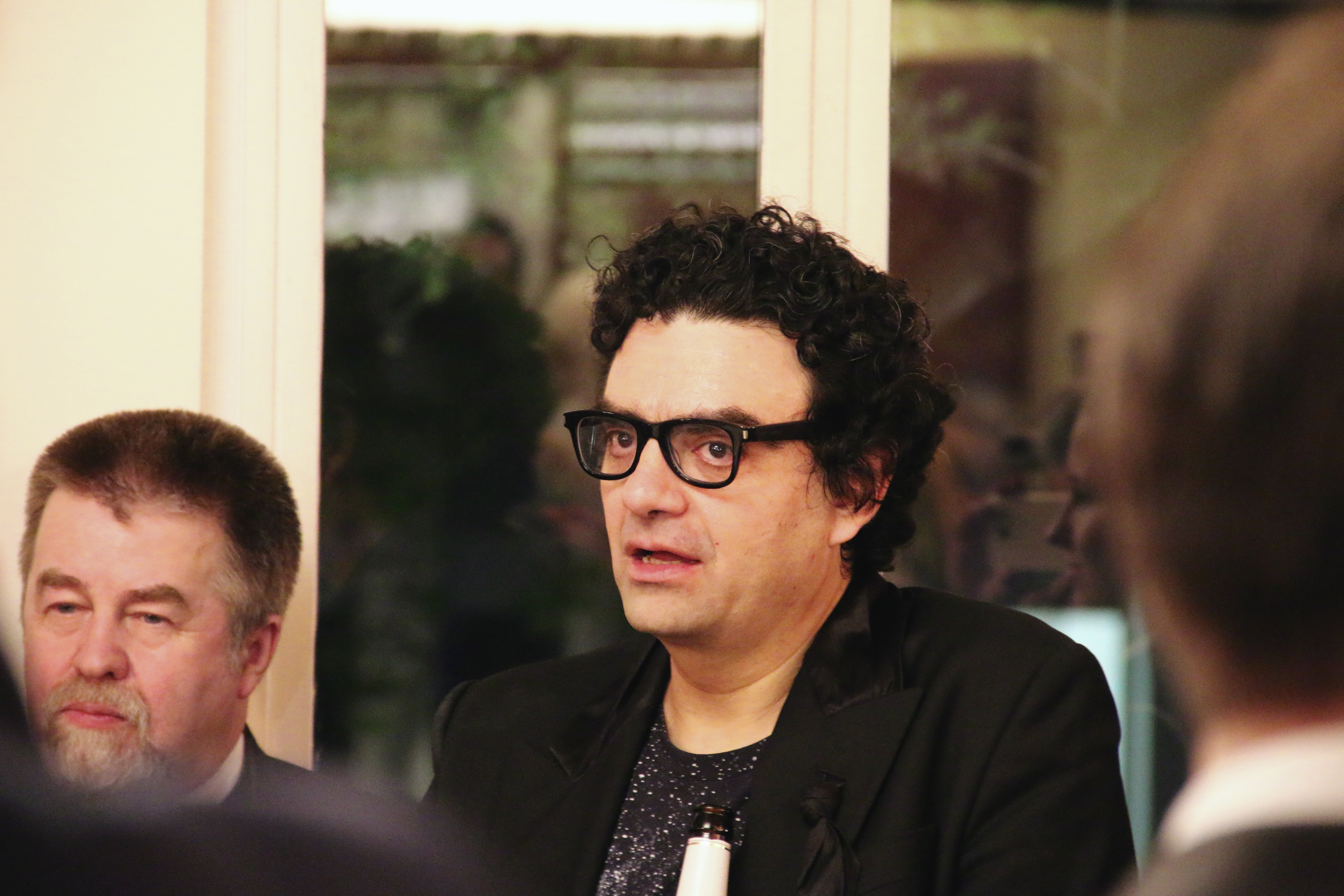 The Scottish lightdesigner Davy Cunningham and the Mexican tenor Rolando Villazón at the launching party of Don Pasquale in Düsseldorf, Germany (2017).